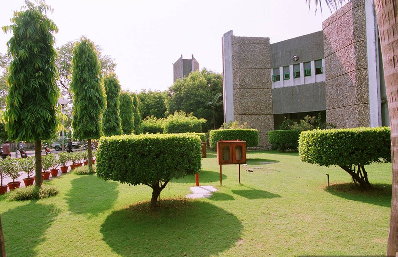 Dr Susheela Tiwari Memorial Hospital is one of the finest hospitals in the state of uttarakhand.